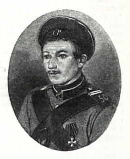 Pyotr Markovich Koshka